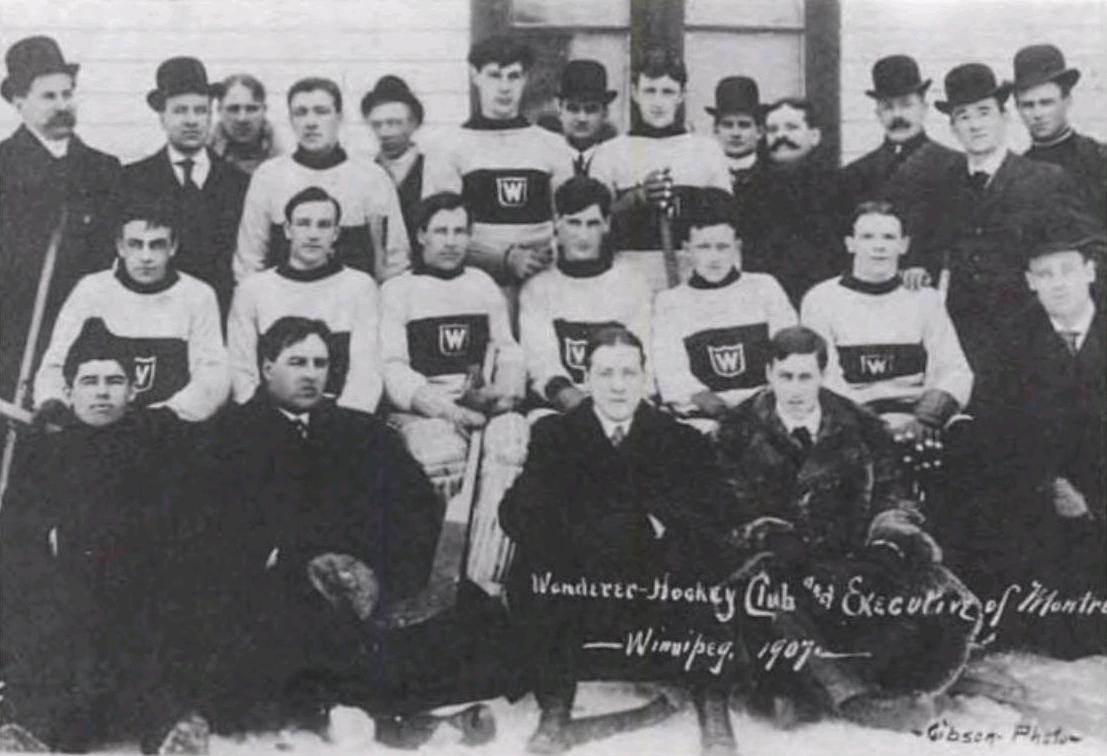 Posed picture of the Montreal Wanderers in Winnipeg, Canada to challenge the Kenora Thistles for the Stanley Cup in 1907.